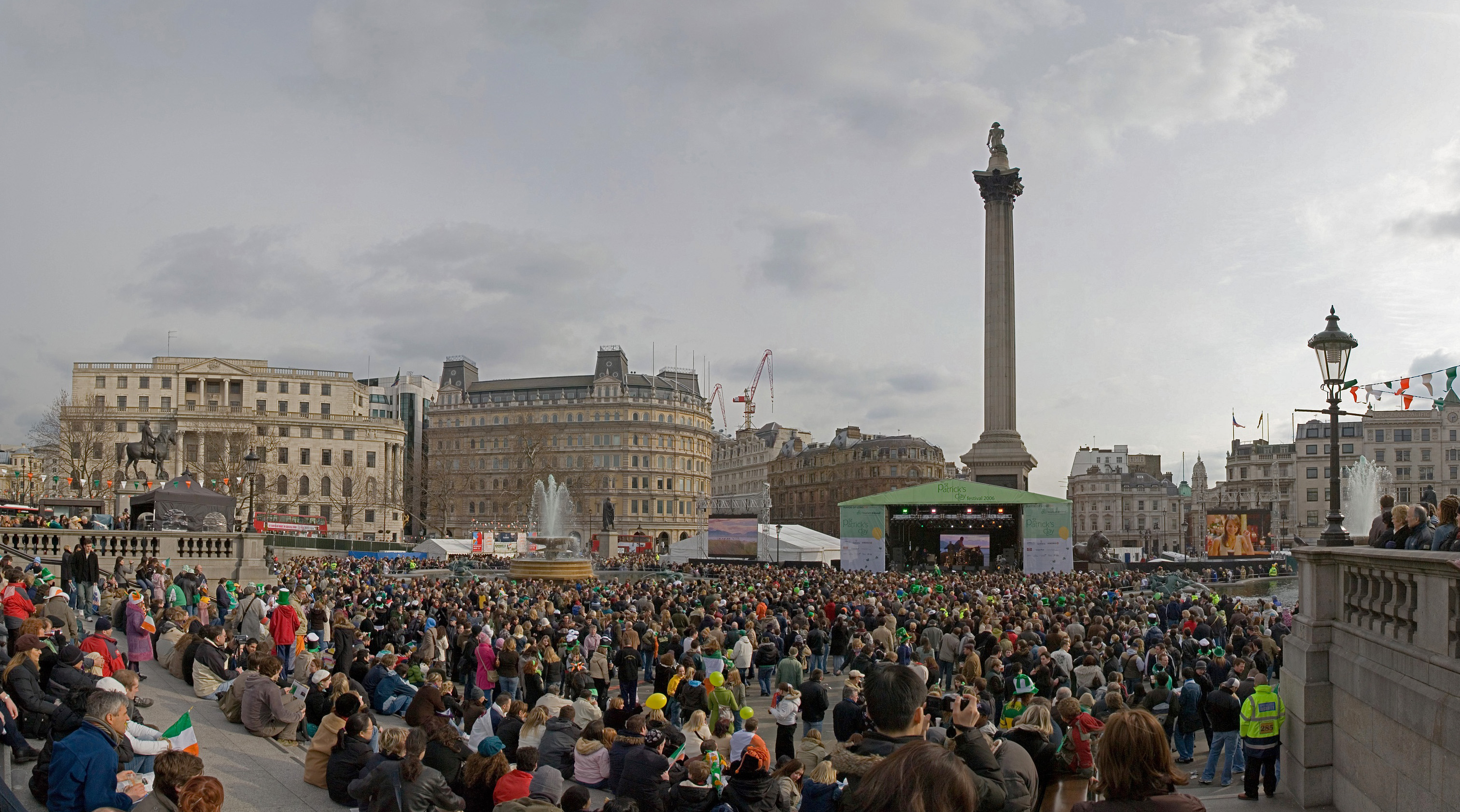 A panoramic view of St Patrick's Day in Trafalgar Square, London in March 2006